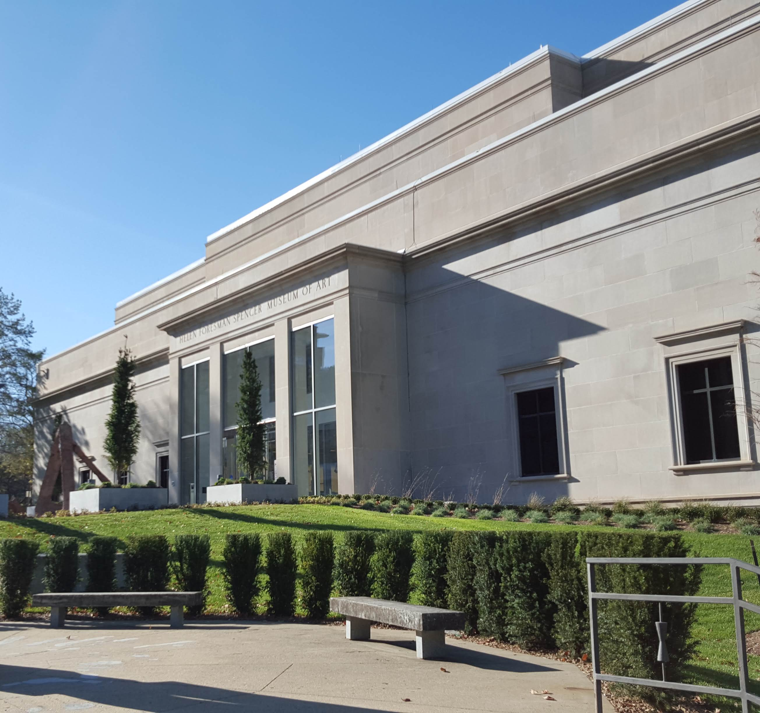 A photo of the entrance to the Spencer Museum of Art in 2016